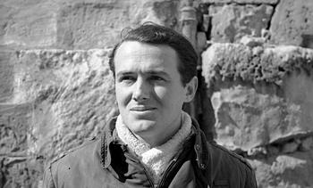 Personalities: Head and shoulders portrait of Lieutenant Alistair C G Mars, DSO, RN, commanding officer of HMSM UNBROKEN.